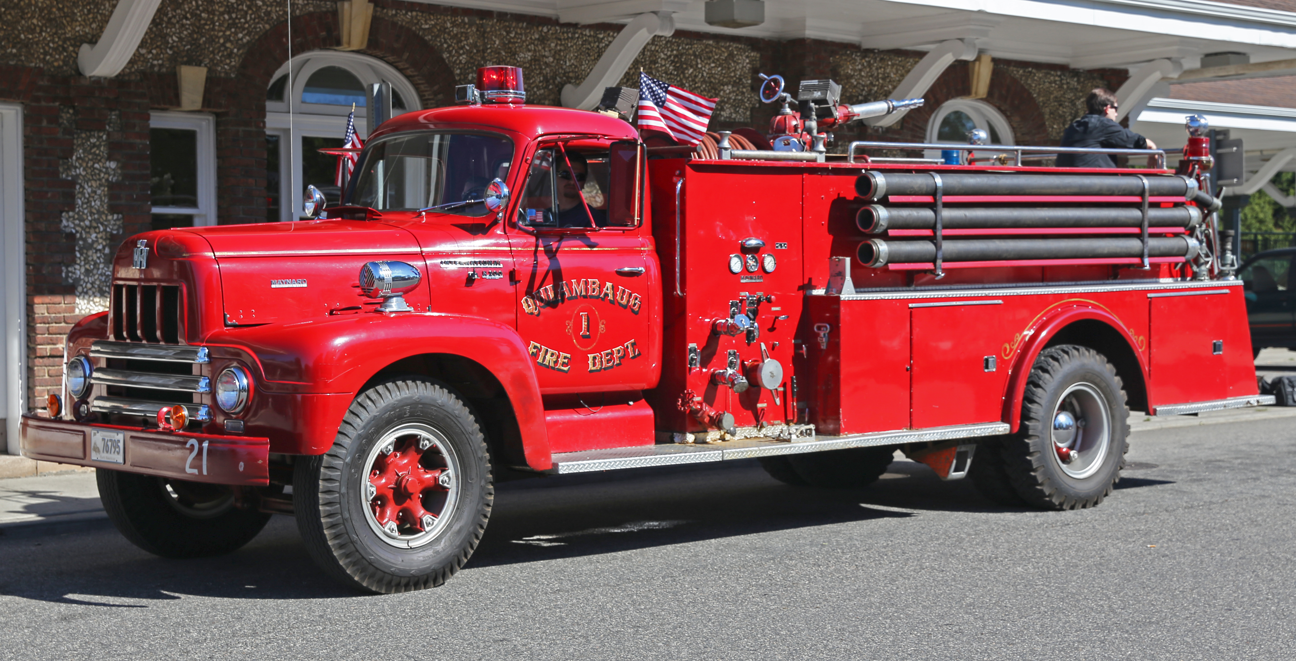 1961 International Harvester R200 fire engine, belonging to the Quiambaug Fire Department, on a parade at the Southampton LIRR station. It has a Maynard body and a 501 cubic inch "Red Diamond" inline-six engine. Was in first-line service for at least fifty years!